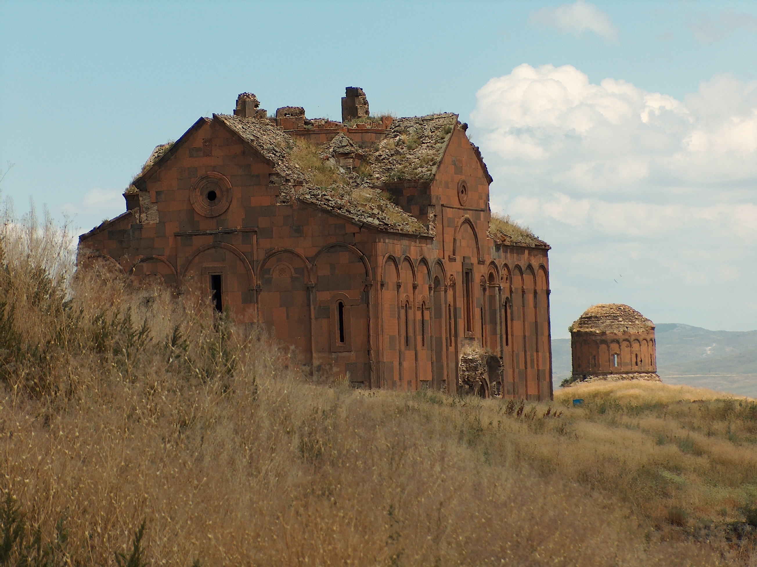 Ruins of an Armenian cathedral in Ani, Turkey (on the Armenian boarder / a historical Armenian capital).